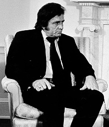 Johnny Cash during a meeting with Richard Nixon in the White House